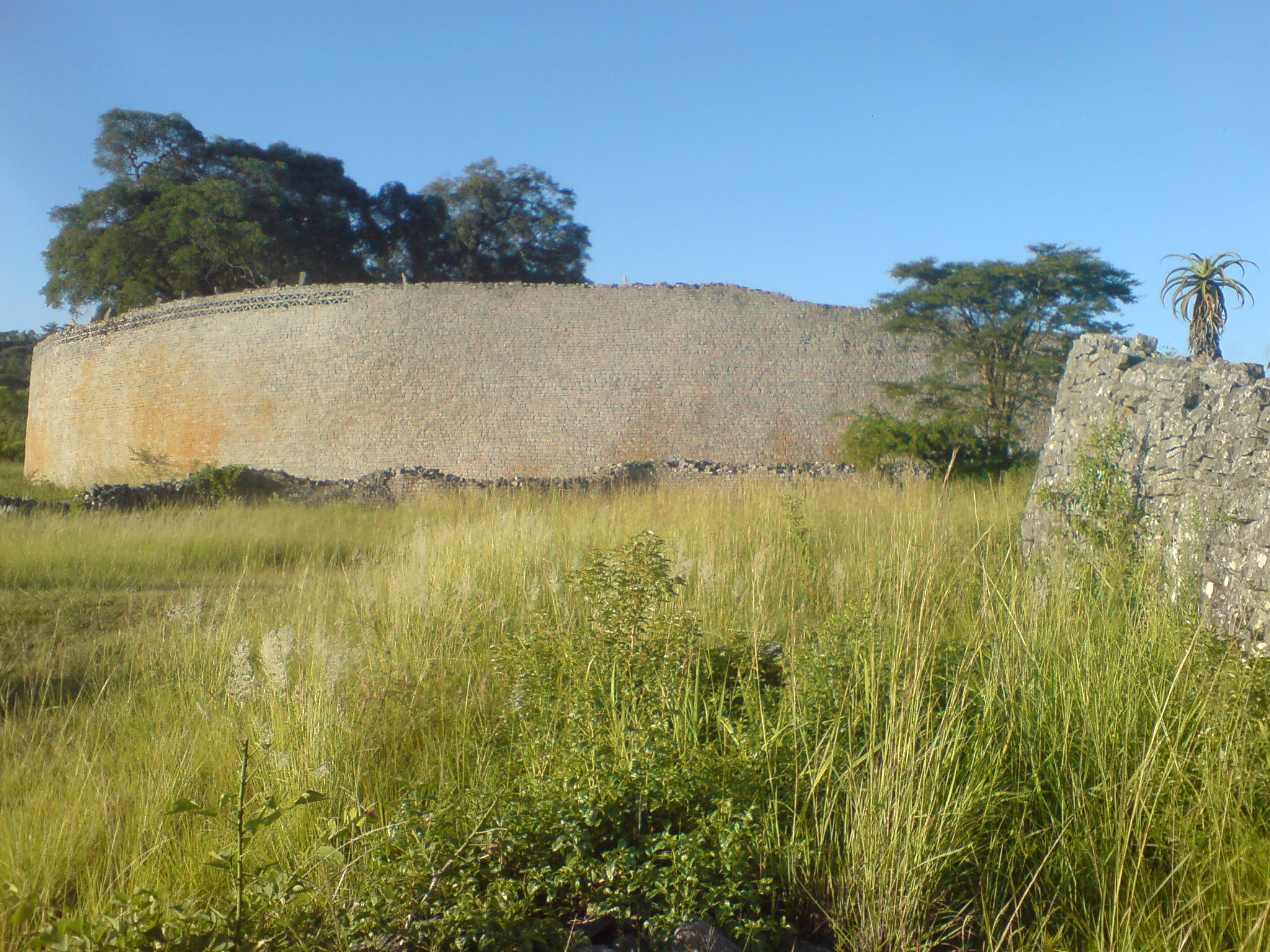 Outside view (far) of the wall of the great enclosure of Great Zimbabwe.